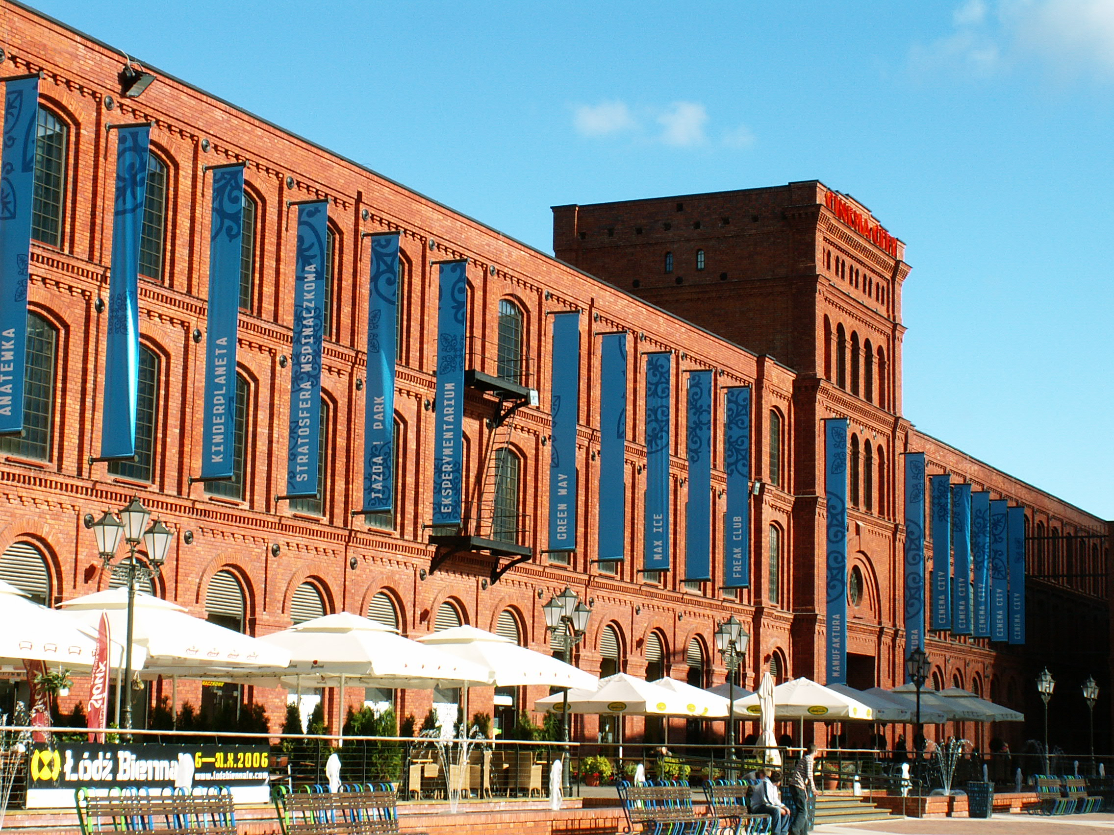 Łódź Manufaktura (restaurants)